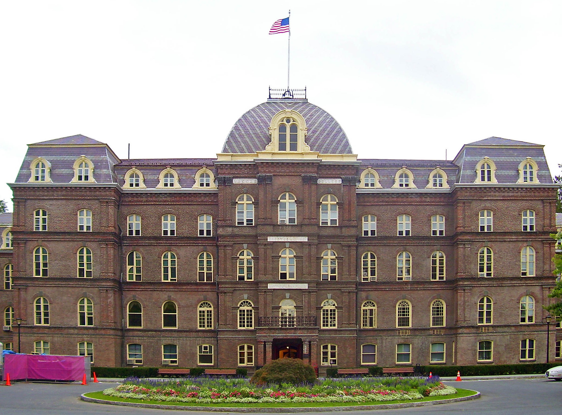 Old Main at Vassar College in Poughkeepsie, NY, USA, a National Historic Landmark (based on Image:Old Main, Vassar College.jpg, distortion corrected by User:Ddxc)